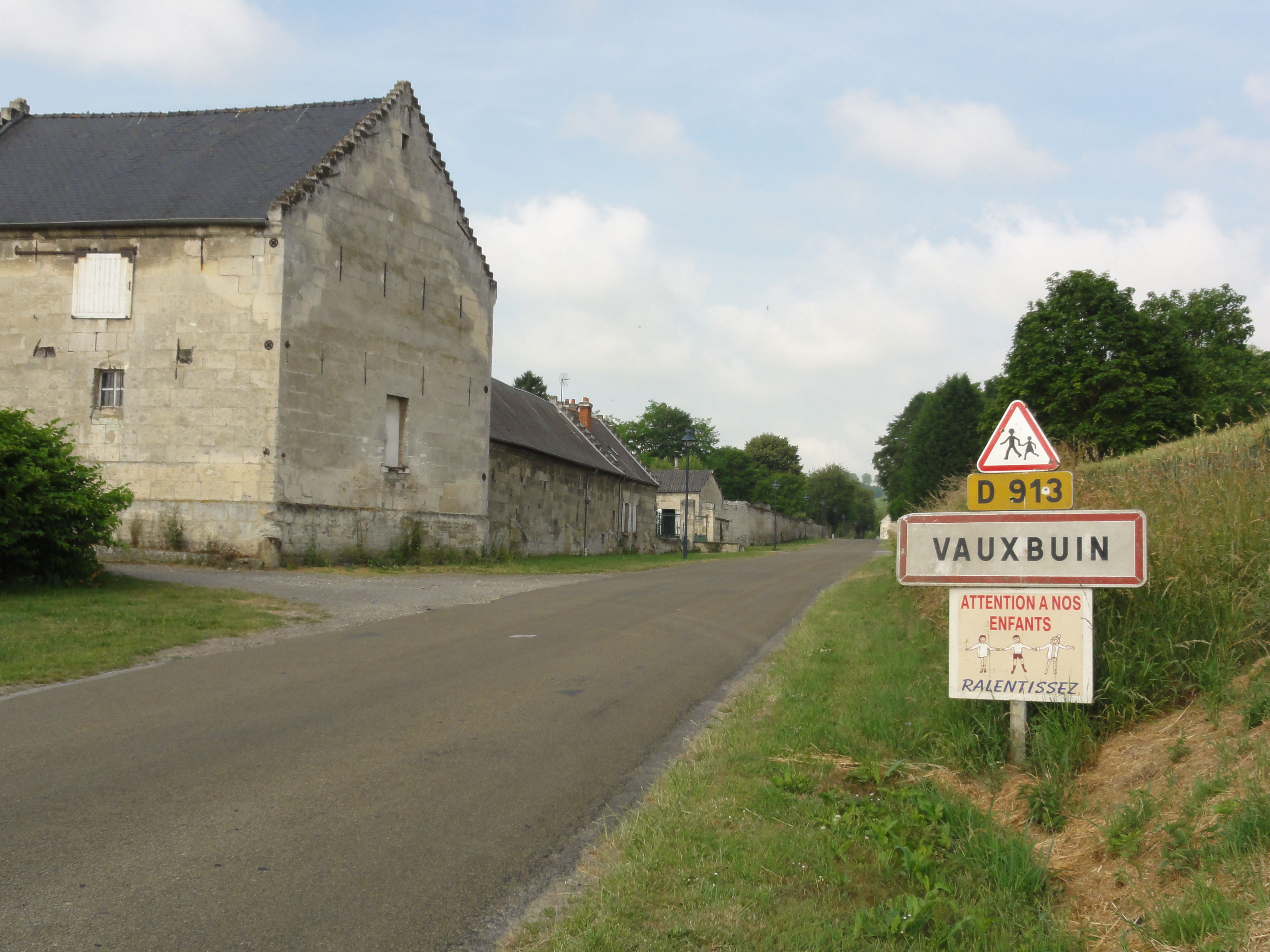 Vauxbuin (Aisne) city limit sign